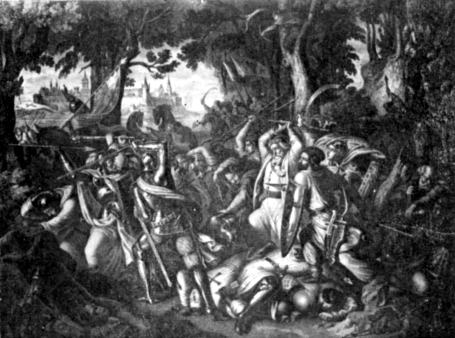 Victory of Moldavians against Teutons in the battle of Marienburg, 1422